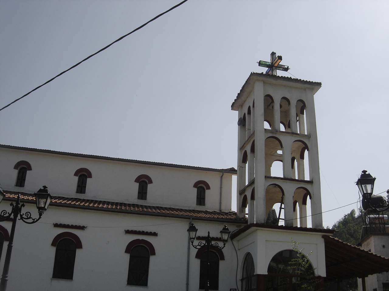 The church of Agia Barbara in Karyes.